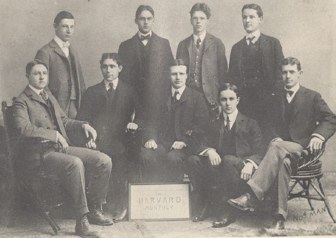 Staff of The Harvard Monthly in 1900: Editor-in-Chief: William Morrow Business Manager: Henry J. Winslow Editors: Walter Conrad Arensberg, Raynal Cawthorne Bolling, James Grant Forbes, William Jones, Gilbert Holland Montague Image designated HSUPF The Harvard Monthly 2 for purposes of archive retrieval